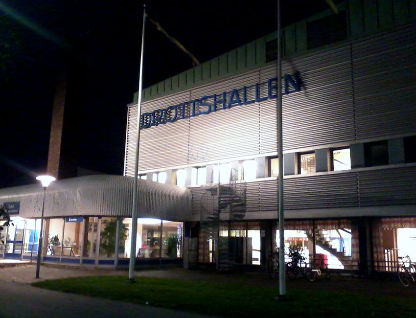 Outside of Karlskrona Idrottshall at night